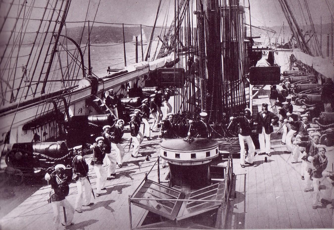 HMS Wolverine: boys at cutlass drill